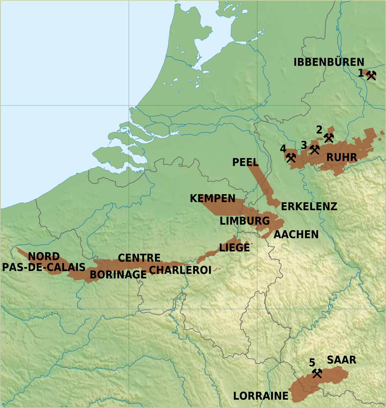 Overview map of coal mining areas in Belgium, Netherlands, Germany and Northern France